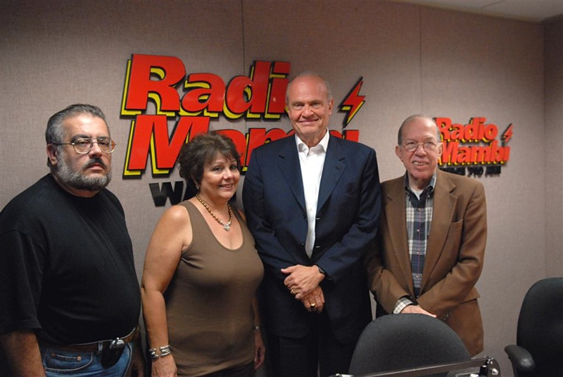 Inside the Radio Mambi studio